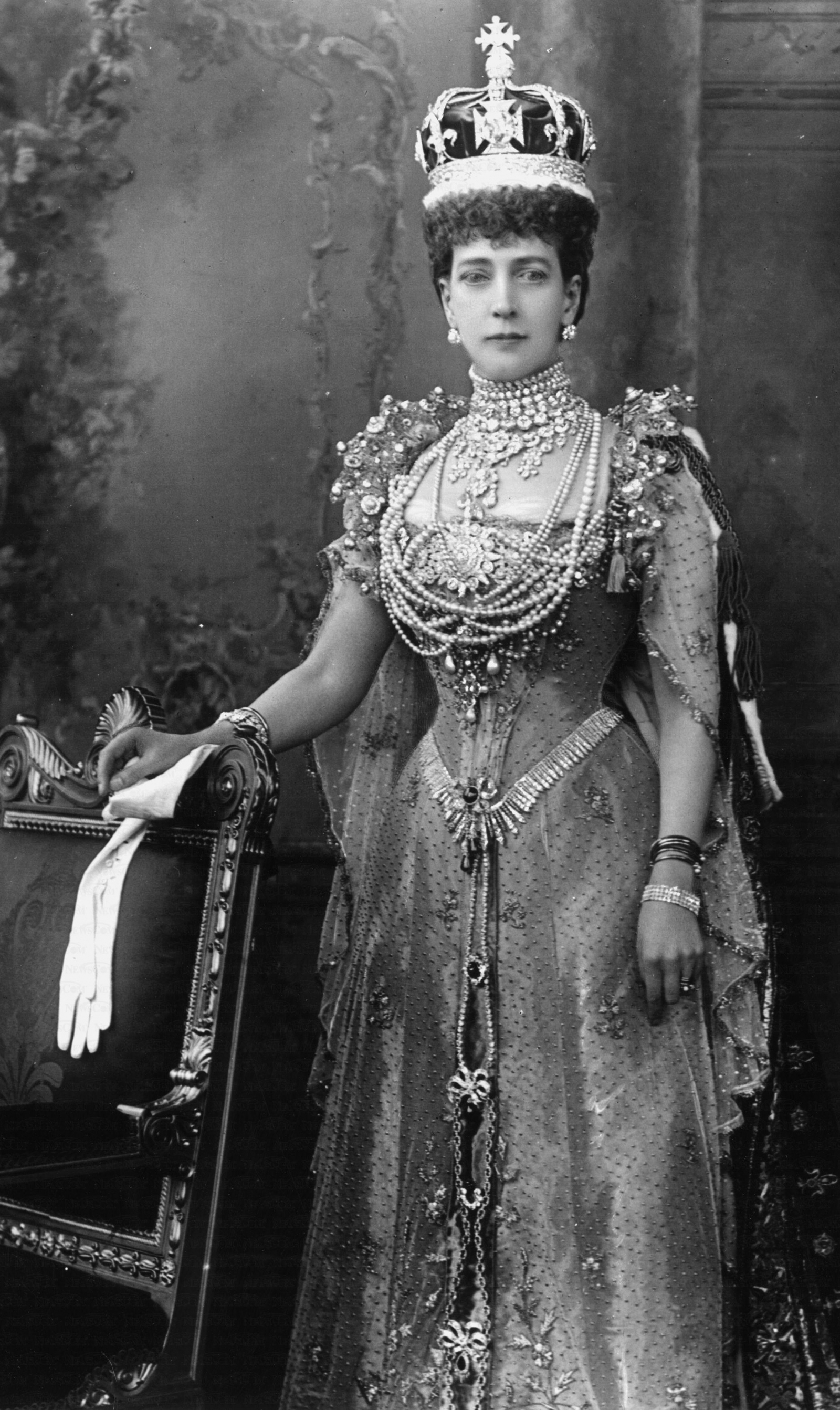 Alexandra of Denmark, queen of the United Kingdom